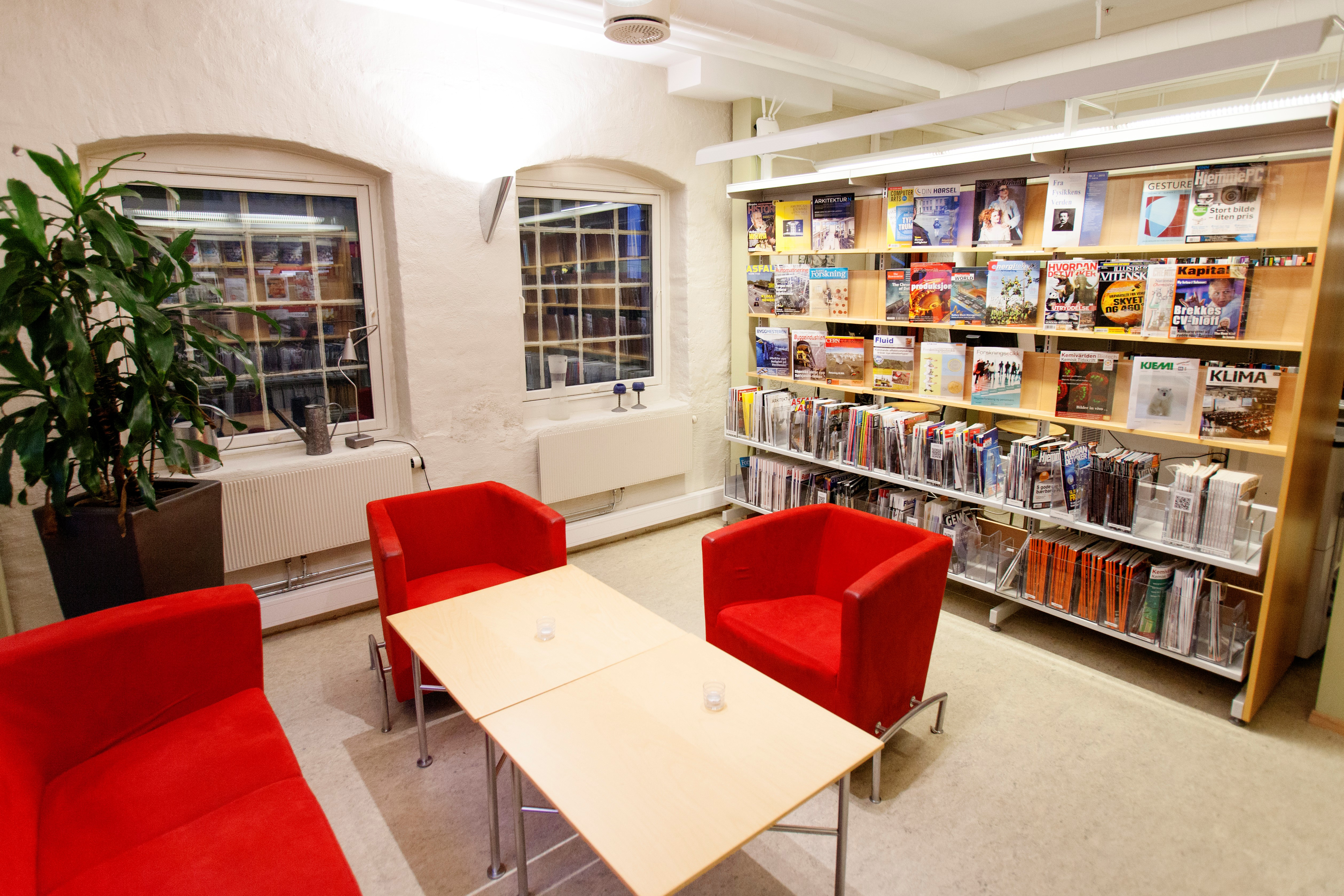 Interior of one of the libraries at the Norwegian University of Science and Technology. Campus Kalvskinnet